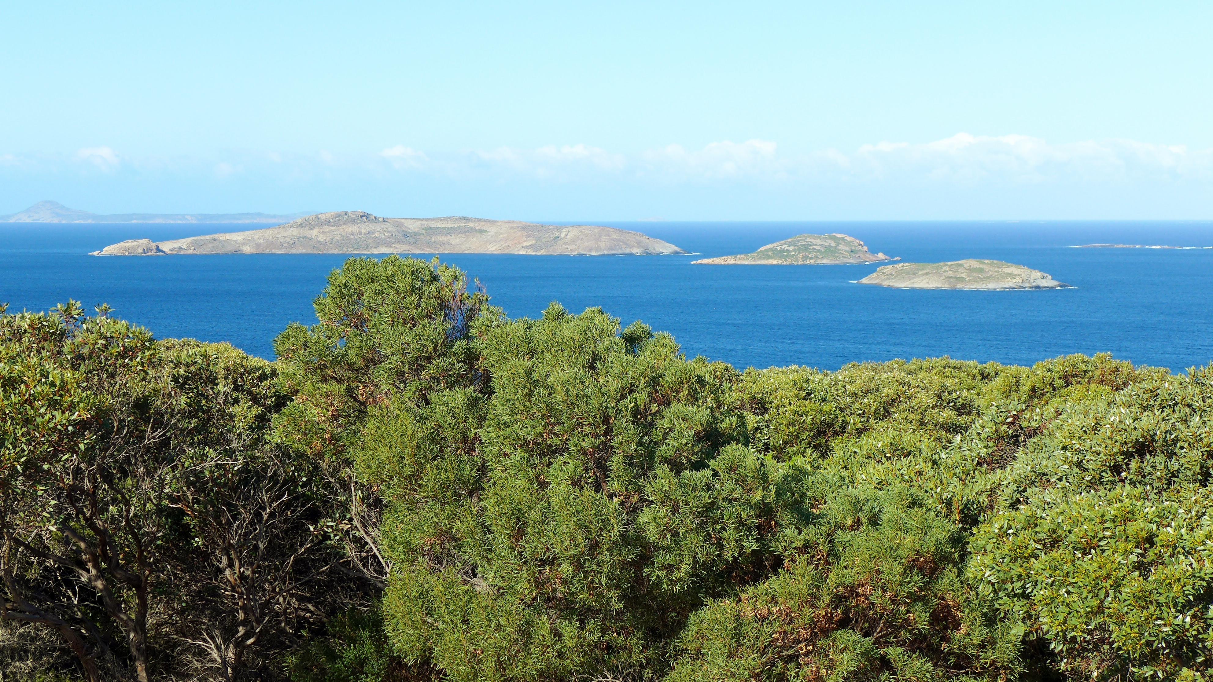 View of Esperance Bay, Western Australia, from the Rotary Lookout at Esperance. The large island at left is Cull Island.